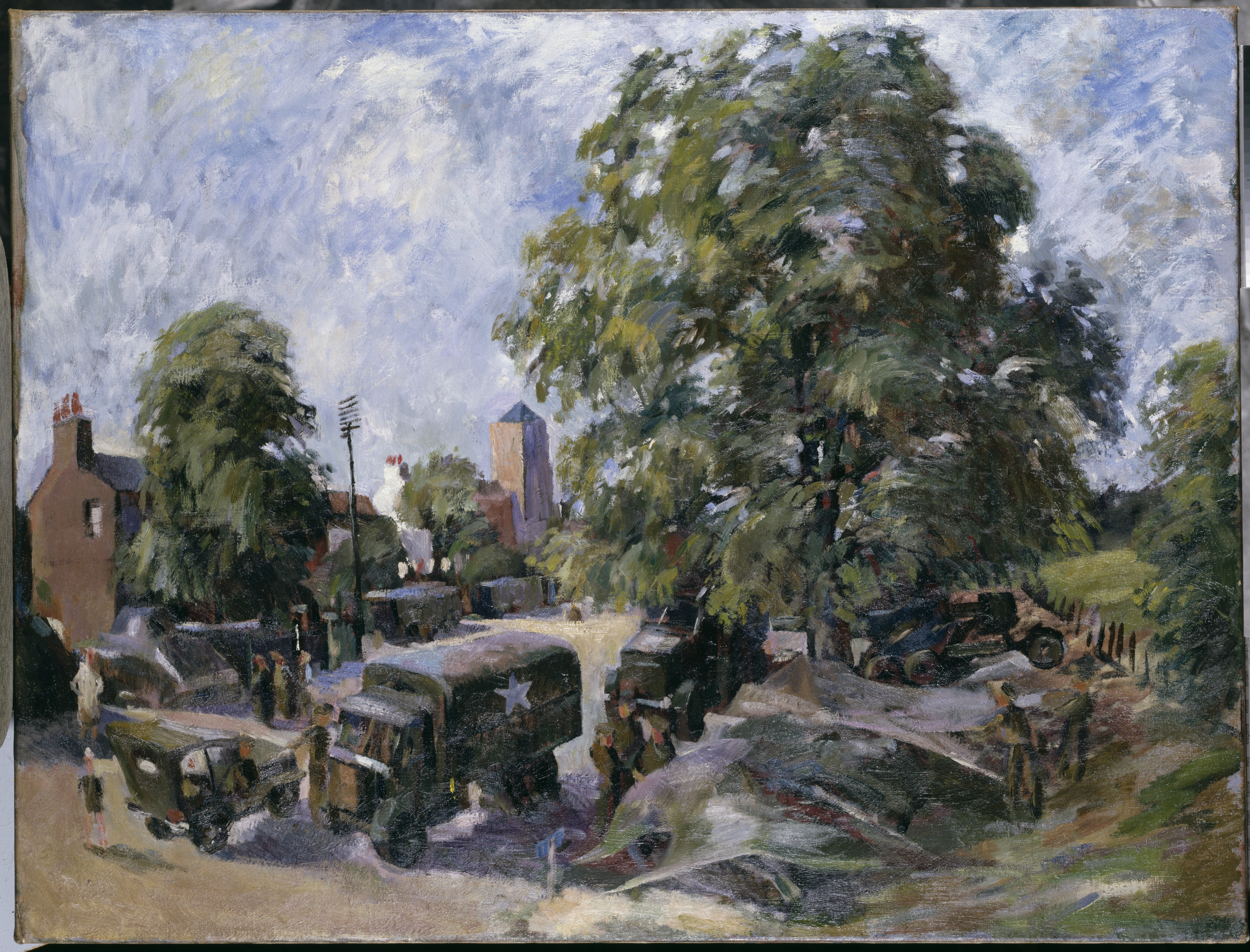 Invasion Preparations in an English Village image: A view from an elevated postion looking onto a road in an English village. There are houses and a church in the background to the left, with a number of American military trucks and a jeep parked on the road in the foreground. To the right is a large tree, beneath which several soldiers are covering supplies with netting.